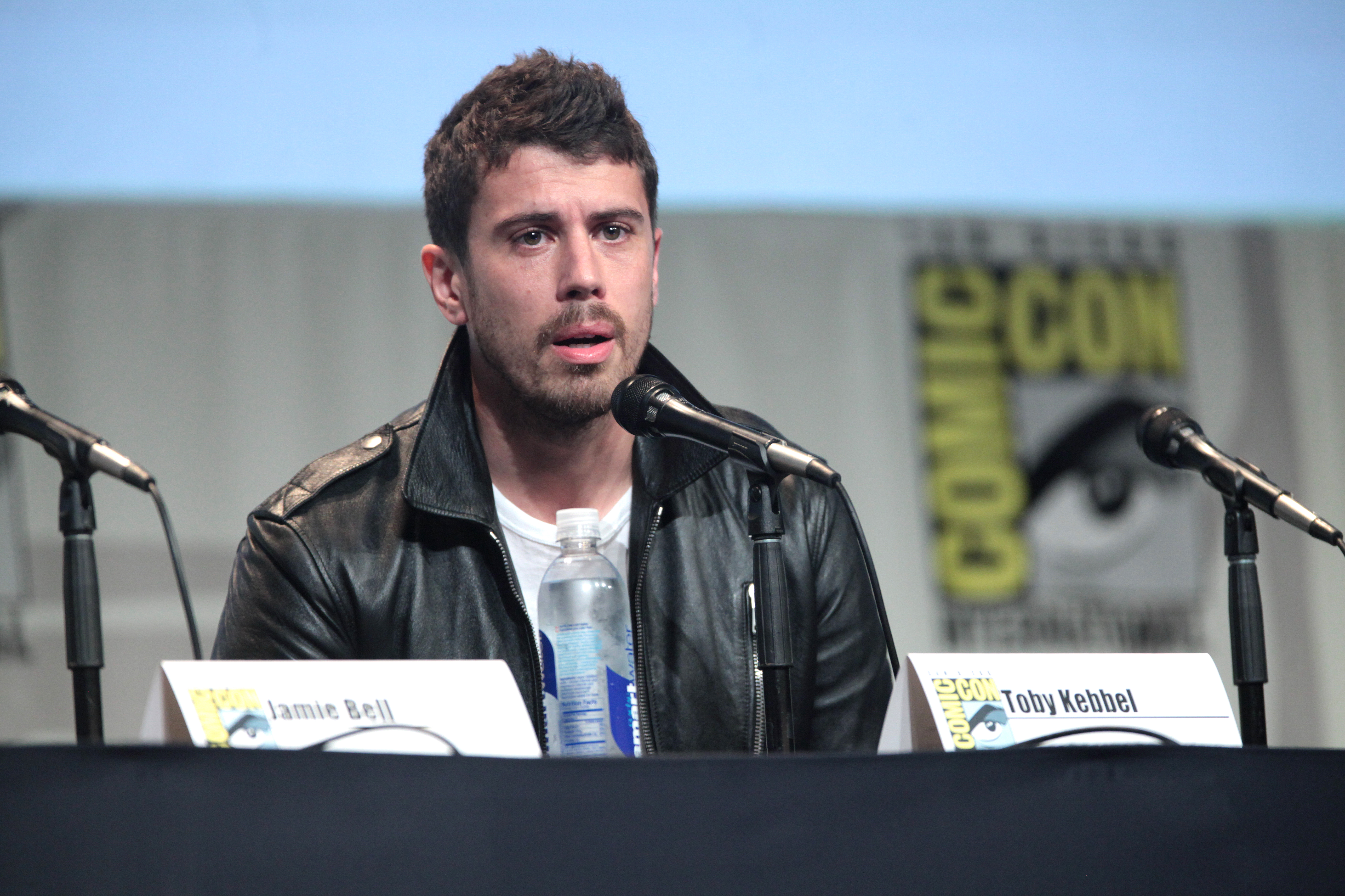 Toby Kebbell speaking at the 2015 San Diego Comic Con International, for "Fantastic Four", at the San Diego Convention Center in San Diego, California.